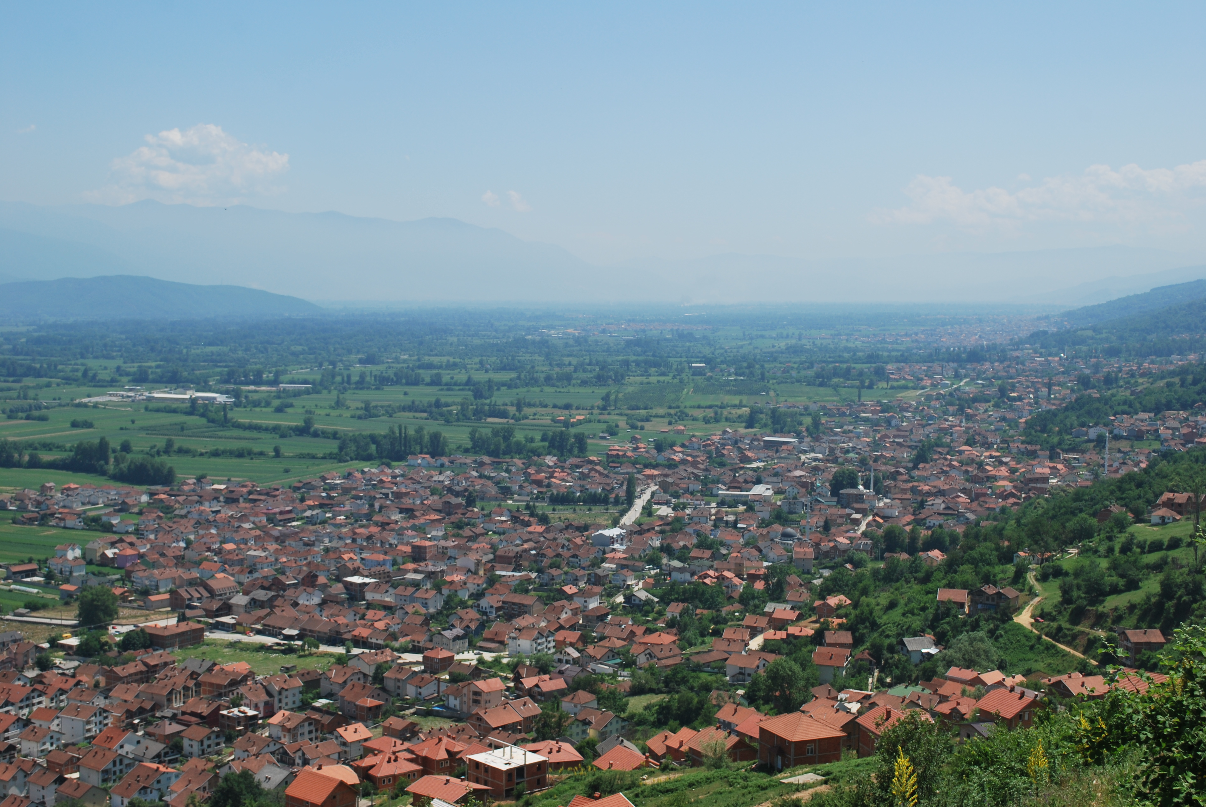 Golema Rečica, Macedonia